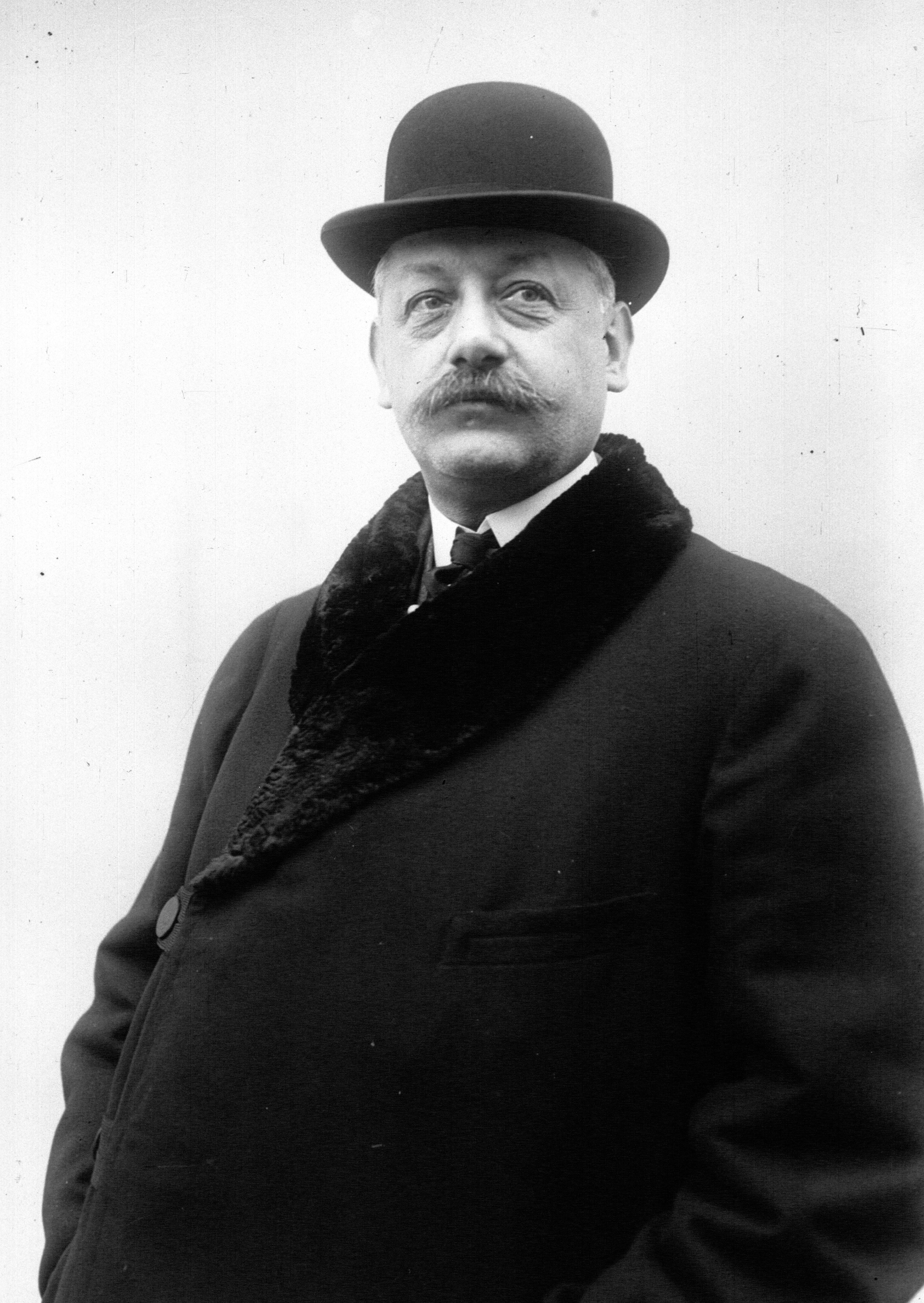 Aircraft manufacturer Armand Deperdussin.